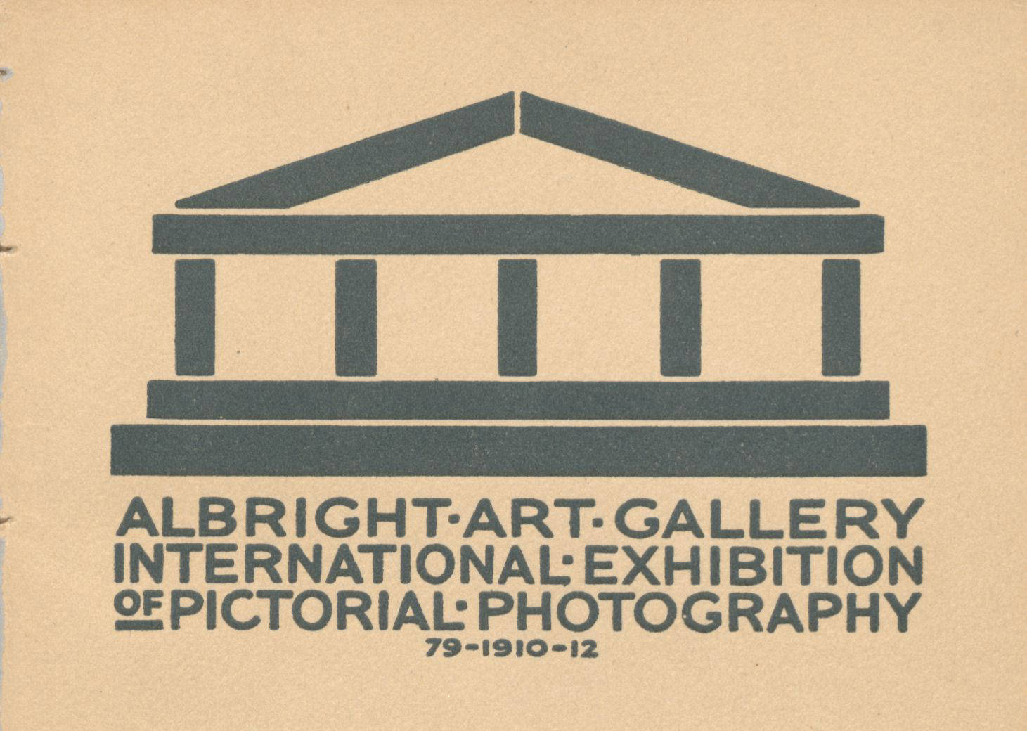 Cover of the catalogue of the international exhibition, pictorial photography / Buffalo Fine Arts Academy, Albright Art Gallery, Nov. 3-Dec. 1, 1910